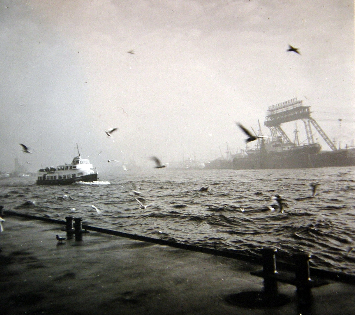 port of hamburg dock stuelcken